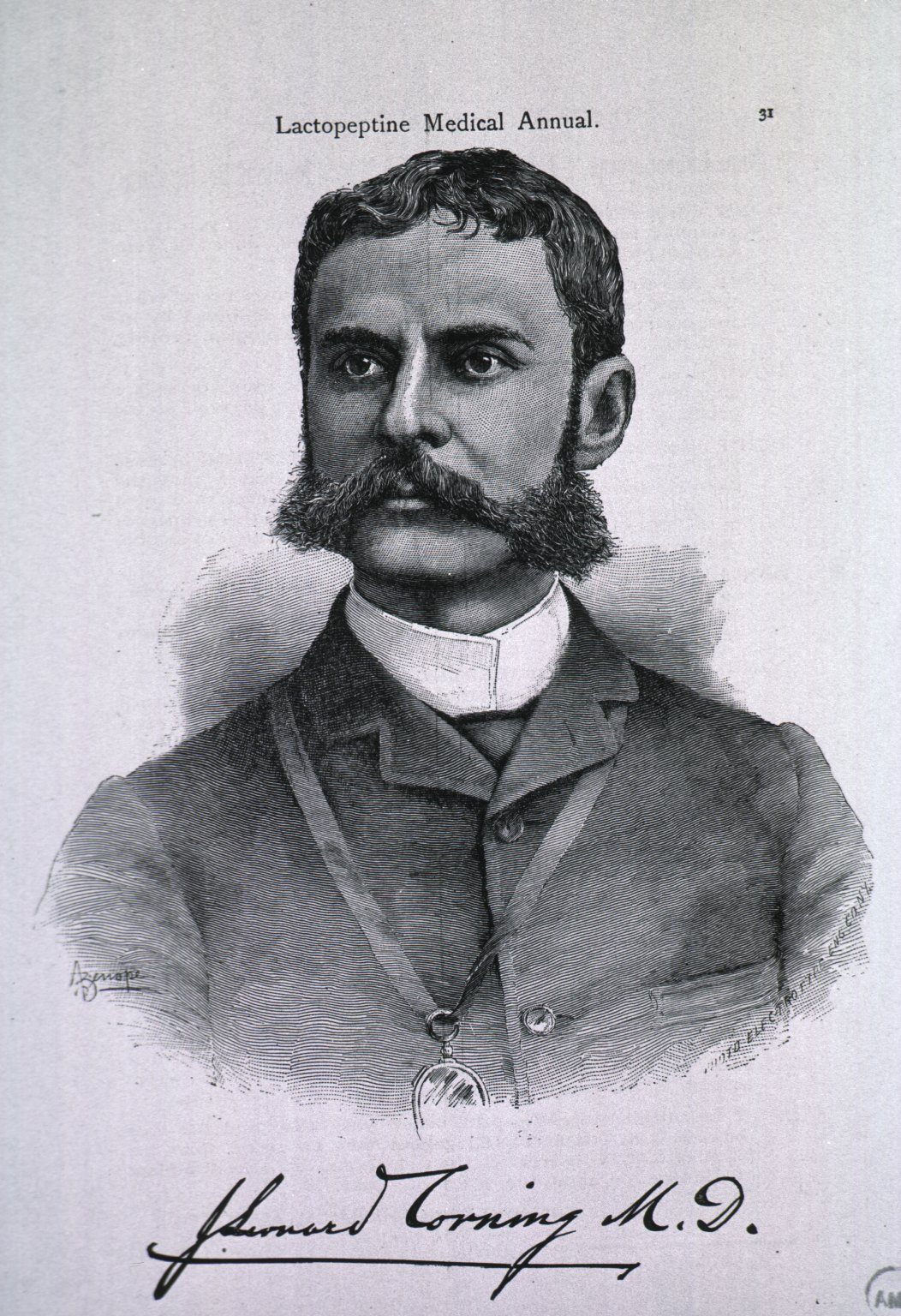 James L. Corning